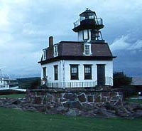 National Park Service photograph at the Shelburne Museum (original here)